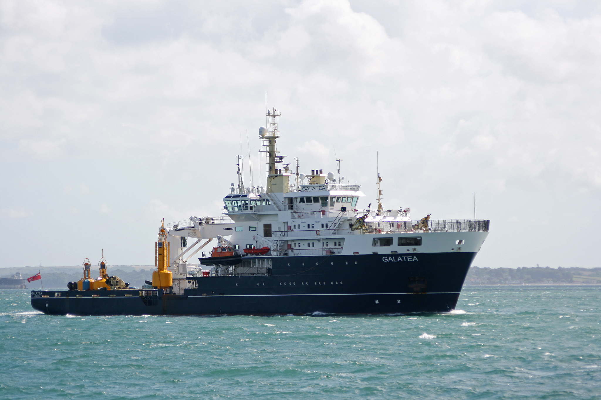 Trinity House lighthouse tender THV Galatea entering Portsmouth Naval Base, UK, 30 July 2009. Image uploaded by me User:George.Hutchinson from a photograph taken by and supplied by Brian Burnell. Wikipedia editors are reminded that the copyright remains with the photographer, and that the terms of the Creative Commons licence; that allow editors to reuse this image apply to Wikipedia editors also, as they do to other re-users of this image. Breaches of the licence terms are not only unlawful, but are also antisocial, in that breaches discourage photographers from making their images freely available to everyone without payment. Wikipedia re-users are also reminded of the license terms that derivatives of this image should not imply that the adaptation is endorsed or approved by the author or copyright holder. Neither should derivatives be presented as the creation of the author or copyright holder, while clearly stating that the adaptation is a derivative of the original. Attribution online should be in this format Brian Burnell. On the printed page, a simpler form is acceptable - example: "Image: Brian Burnell". Non-Wikipedia users are requested to advise Brian Burnell of its use other than on Wikipedia. IMO Number: 9338591 MMSI Number: 235054097 Callsign: MRDQ7 Length: 84 m Beam: 16 m